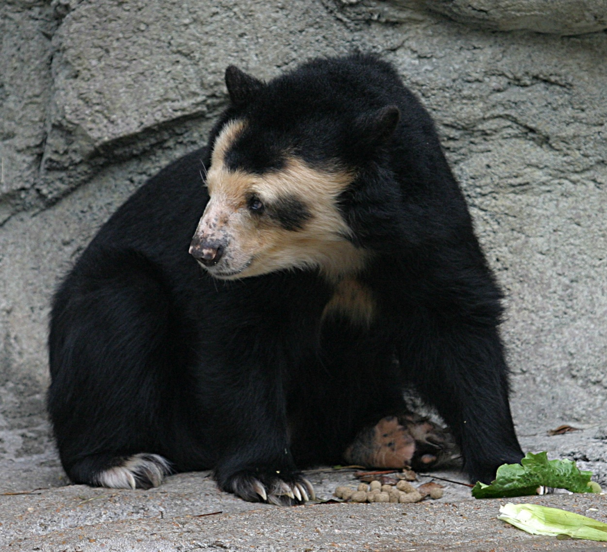 Tremarctos ornatus Spectacled Bear at the Houston Zoo